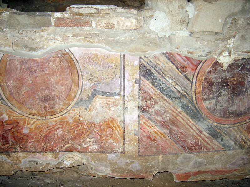 Plinth from SS Forty Martyrs Church, Tarnovo, 13th century